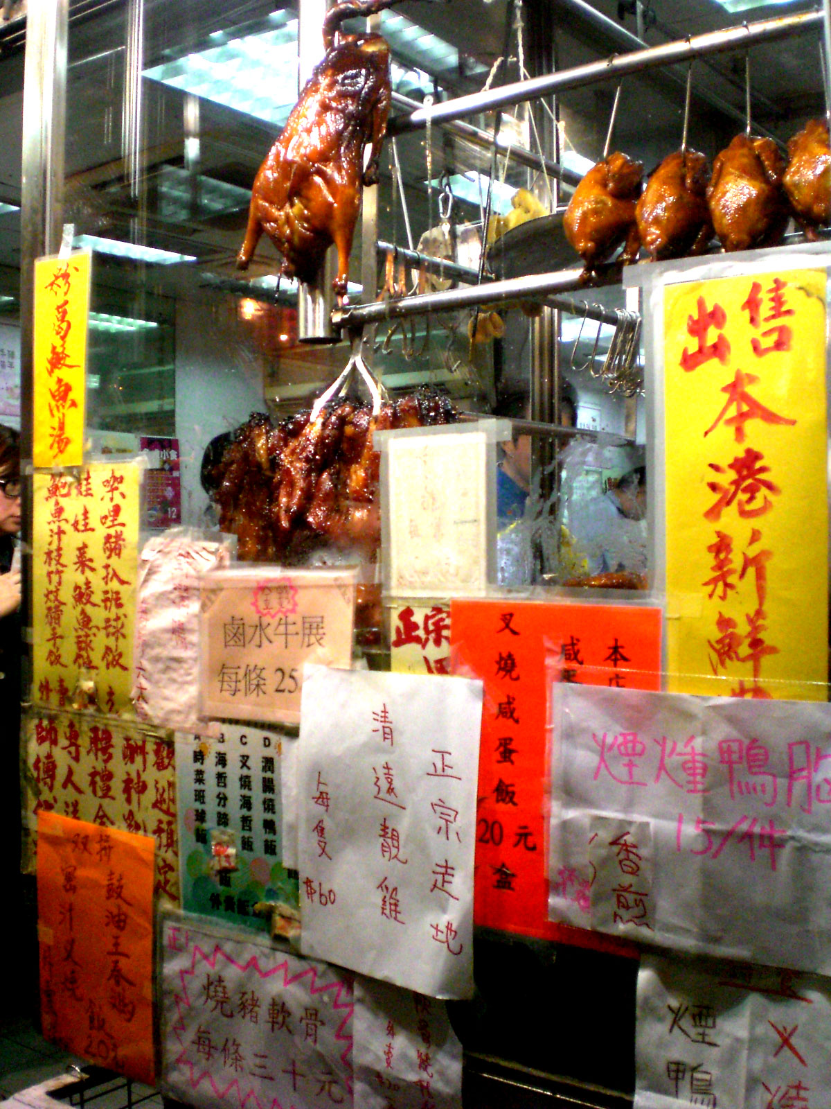 灣仔史釗域道再興燒臘飯店